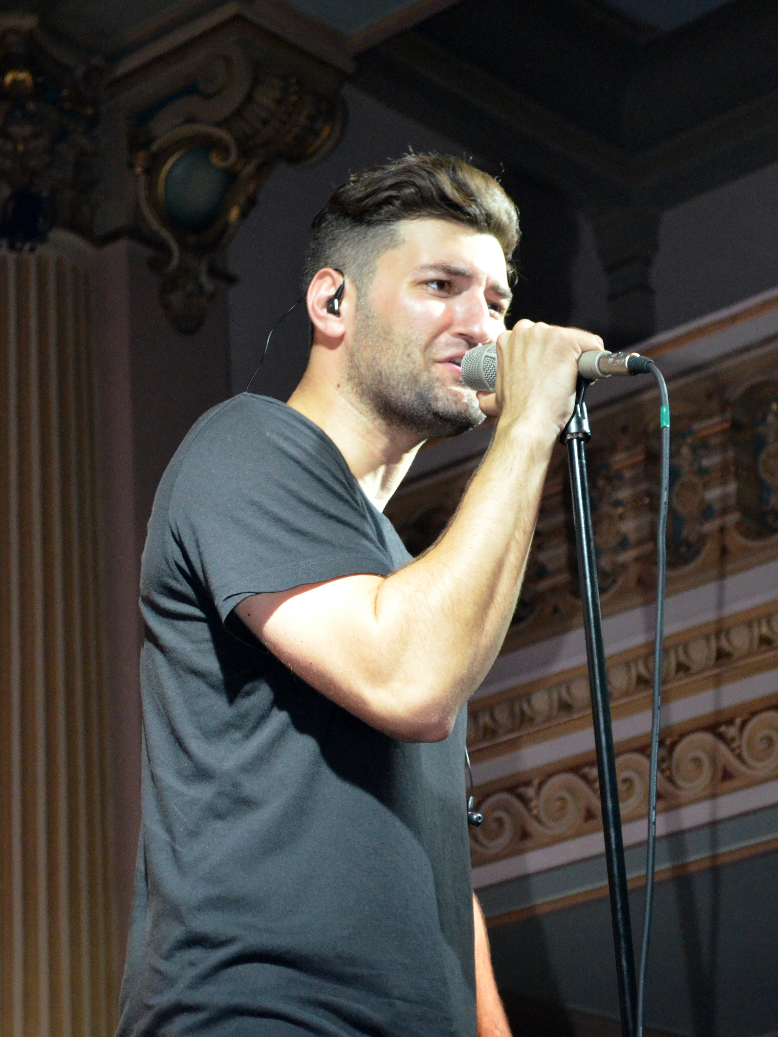 Smiley in concert at a private party, at Bragadiru Palace